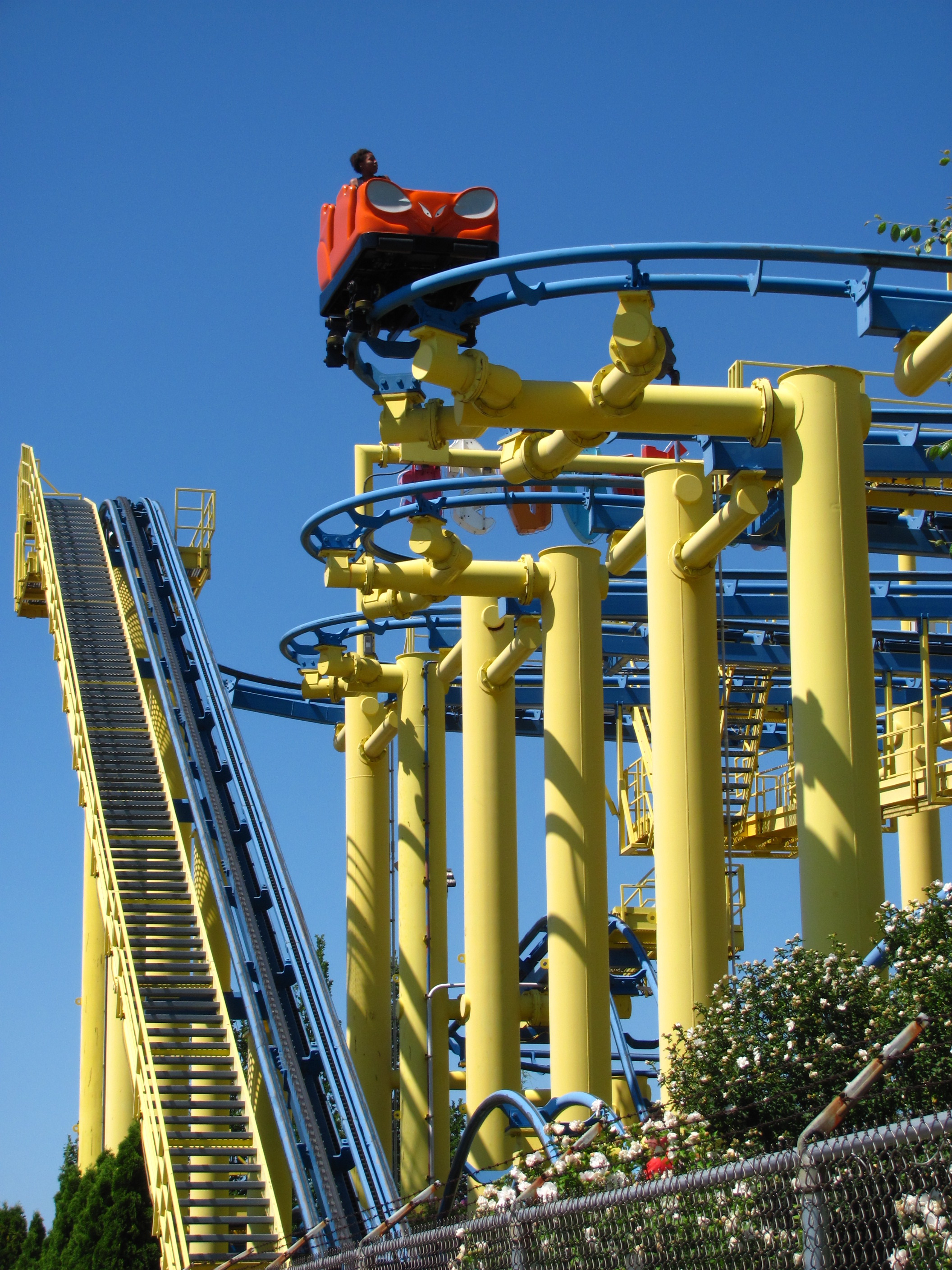 Mad Mouse at Michigan's Adventure amusement park.